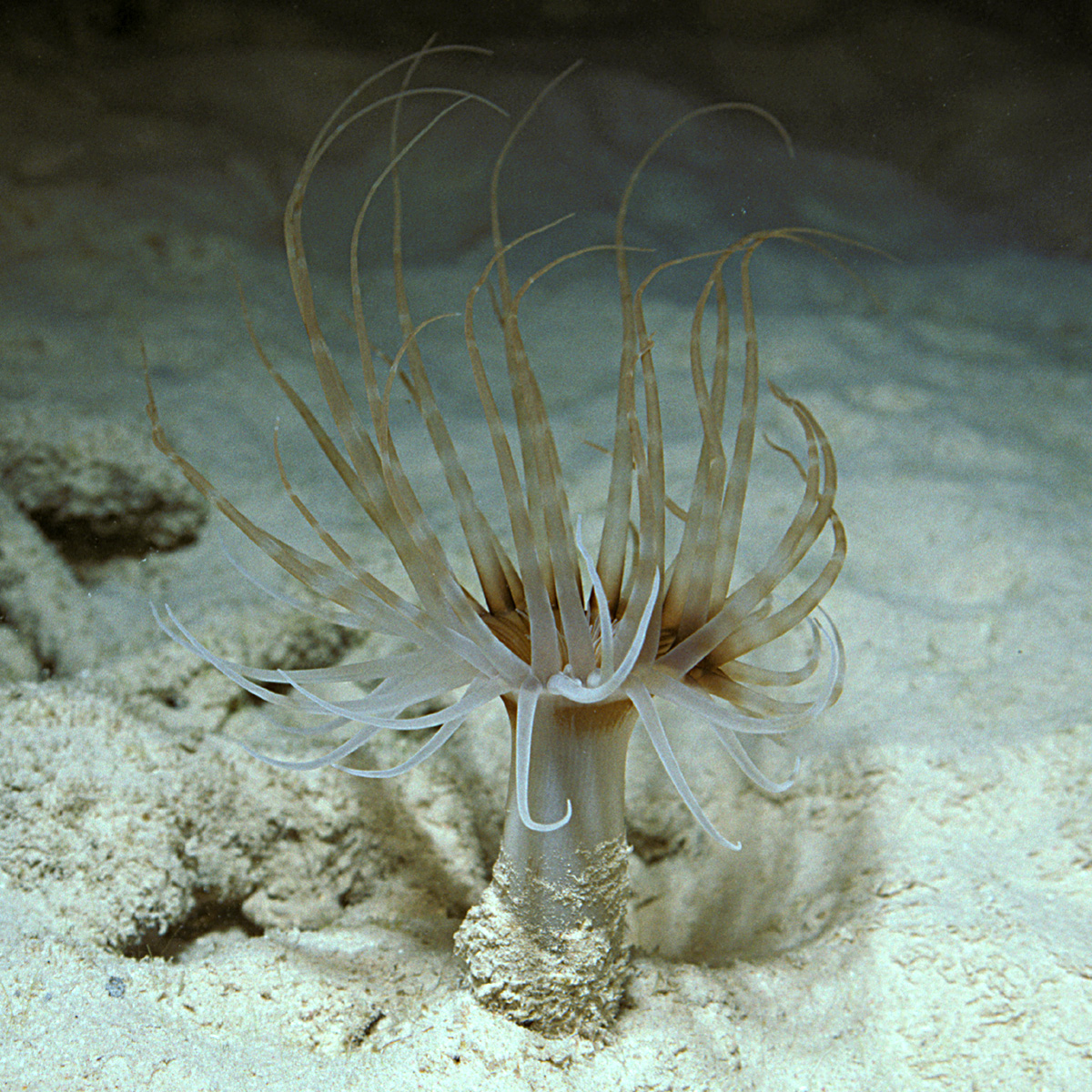 Banded Tube-Dwelling Anemone (Arachnanthus nocturnus). Bonaire, Netherlands Antilles. – When they figure out that you are nearby, they suck themselves into their holes so fast, it looks like a slight-of-hand magic trick. Needless to say, these nocturnal polyps aren't very delighted about the strobe flash.